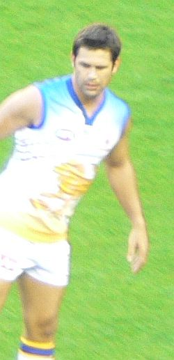 Chris Johnson, Australian rules footballer I created this image with my own camera - please do not delete ! --Rulesfan| (talk|) 08:14, 2 January 2009 (UTC)